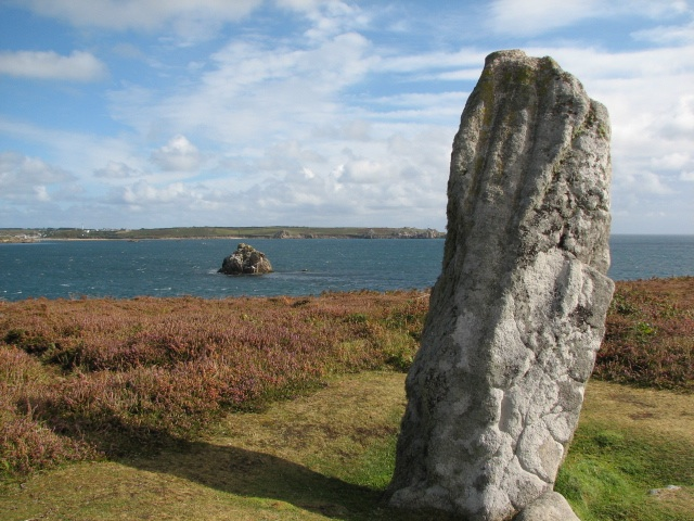 The Old Man of Gugh A Bronze Age menhir or standing stone around 3,500 years old. In the distance you can see 'The Bow' and the coast of St Mary's. The 'Isle of Scilly' guidebook reads: ".....In 3,500 years time in AD 5500, with the present rate of sea rise of about 3mm a year, the sea level will be about 10.5 metres higher than today. The waves will then be lapping at the base of the old man himself.."